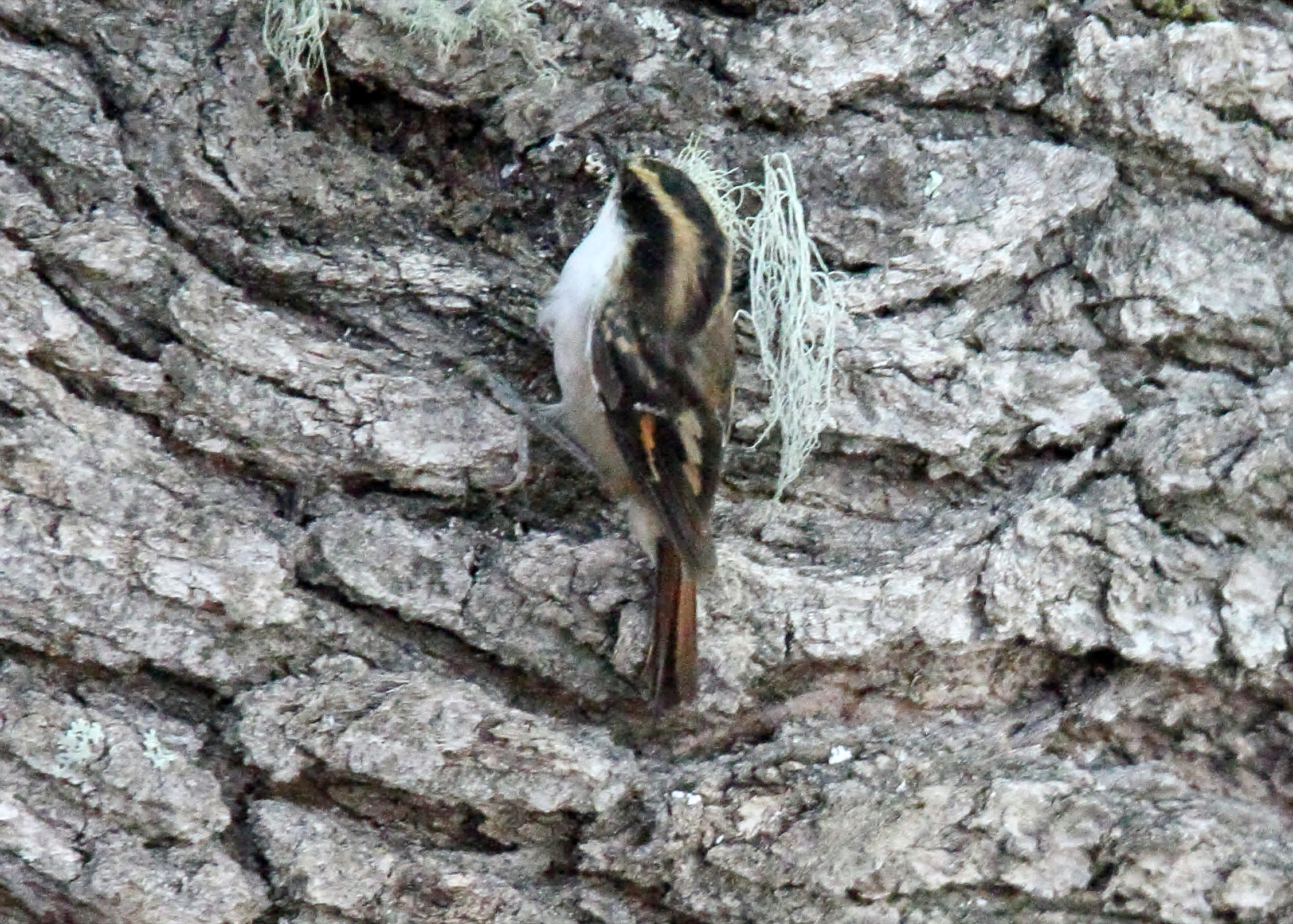 Thorn-tailed Rayadito Aphrastura spinicauda, southern Argentina